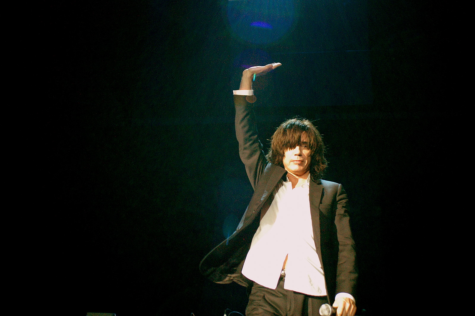 Jean Michel Jarre live in Milan, private concert for About J jewellery event, March 1, 2008